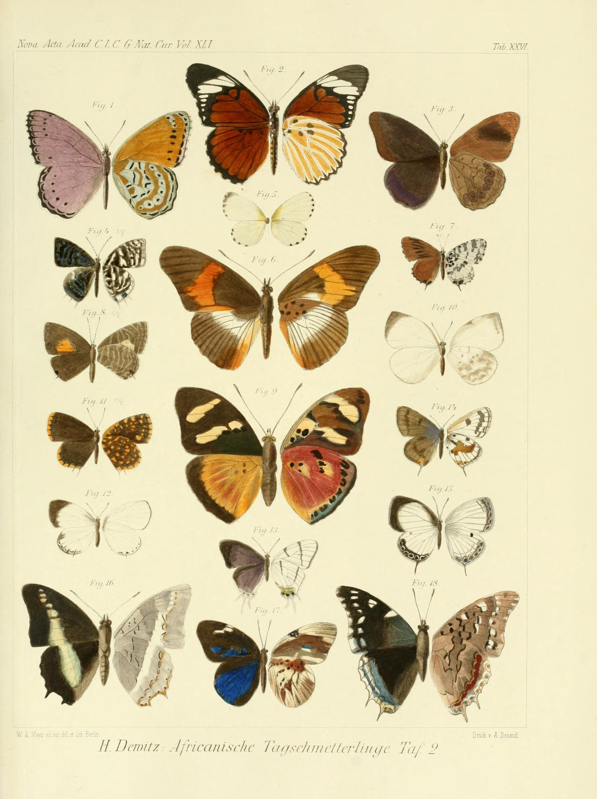 Dewitz, H. (1879): Afrikanische Tagschmetterlinge. Nova Acta Academiae Caesarea Leopoldina-Carolinae Germanicum Naturae Curiousorum 41 (2):173-212. Text figure 1 Sevenia pechueli (Dewitz, 1879) n.sp. figure 2 Pseudacraea poggei (Dewitz, 1879) figure 3 Crenis ribbei Dewitz, 1879 synonym for Sevenia occidentalium (Mabille, 1876) figure 4 Pentila tachyroides Dewitz, 1879 figure 5 Plebeius lucretilis synonym for Anthene lucretilis (Hewitson, 1874) figure 6 Pseudacraea kuenowii Dewitz, 1879 figure 7 Plebeius (Lampides) poggei Dewitz, 1879 synonym for Uranothauma poggei (Dewitz, 1879) figure 8 Plebeius lusines synonym for Anthene lusones (Hewitson, 1874) figure 9 Euphaedra zaddachii Dewitz, 1879 figure 10 Liptena soyauxii Dewitz, 1879 synonym for Larinopoda tera (Hewitson, 1873) figure 11 Plebeius sorhagenii Dewitz, 1879 synonym for Zeritis sorhagenii (Dewitz, 1879) figure 12 Plebeius güssfeldti Dewitz, 1879 synonym for Oboronia guessfeldti (Dewitz, 1879) figure 13 Hypolycaena homeyerii Dewitz synonym for Plebejus homeyeri (Dewitz, 1879) in Global Lepidoptera Index not included in African Butterfly Database figure 14 Lepidochrysops reichenowii (Dewitz, 1879) figure 15 Plebeius punctatus Dewitz, 1879 synonym for Oboronia punctatus (Dewitz, 1879) figure 16 Nymphalis hildebrandti Dewitz, 1879 synonym for Charaxes hildebrandti (Dewitz, 1879) figure 17 Hewitsonia kirbyi Dewitz, 1879 figure 18 Nymphalis guderiana synonym for Charaxes guderiana (Dewitz, 1879)